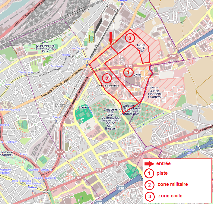 Location of the former Haren-Evere airfield (1919-1940) on an actual map